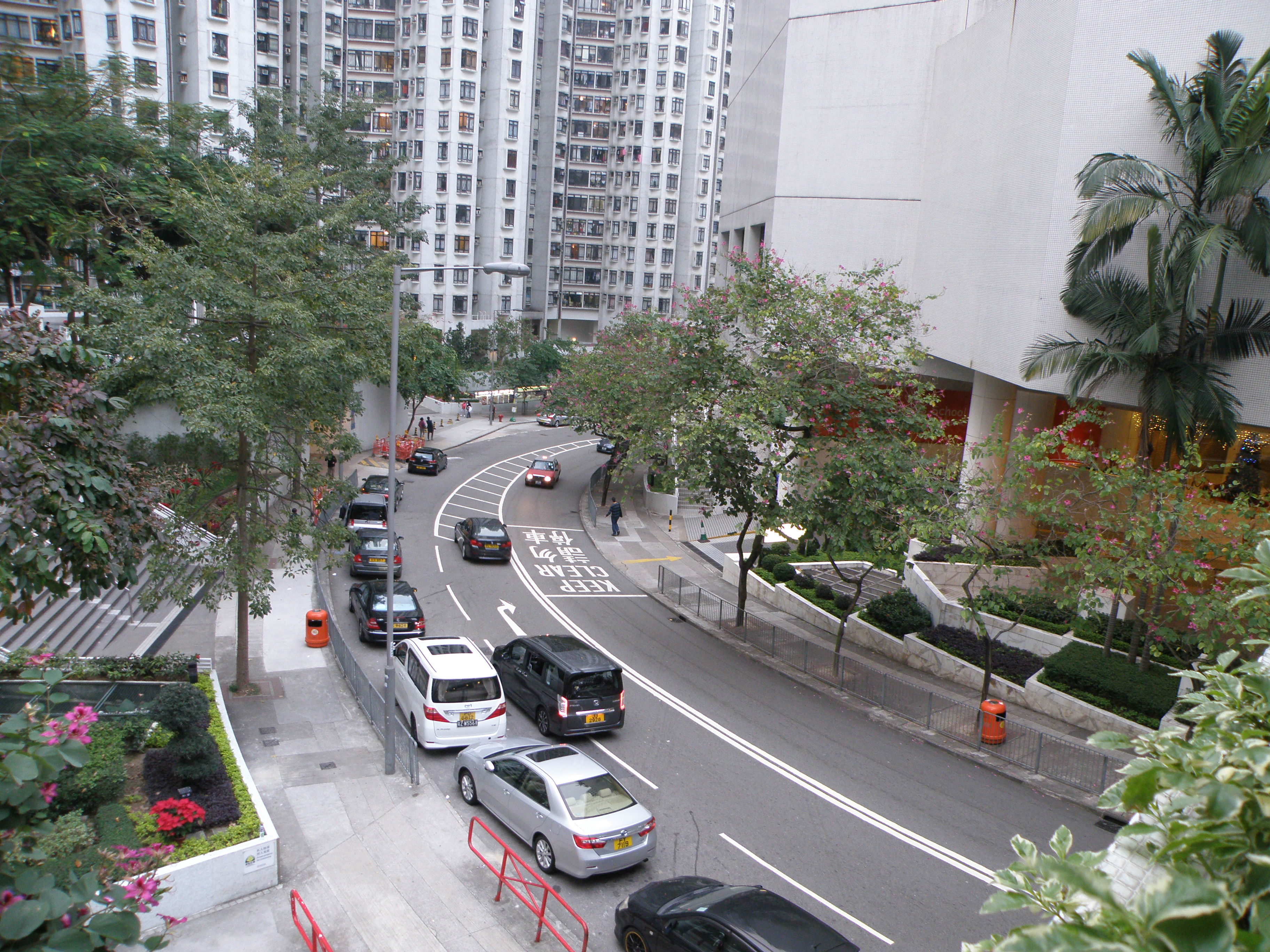 Hong On Street in Kornhill, Hong Kong.